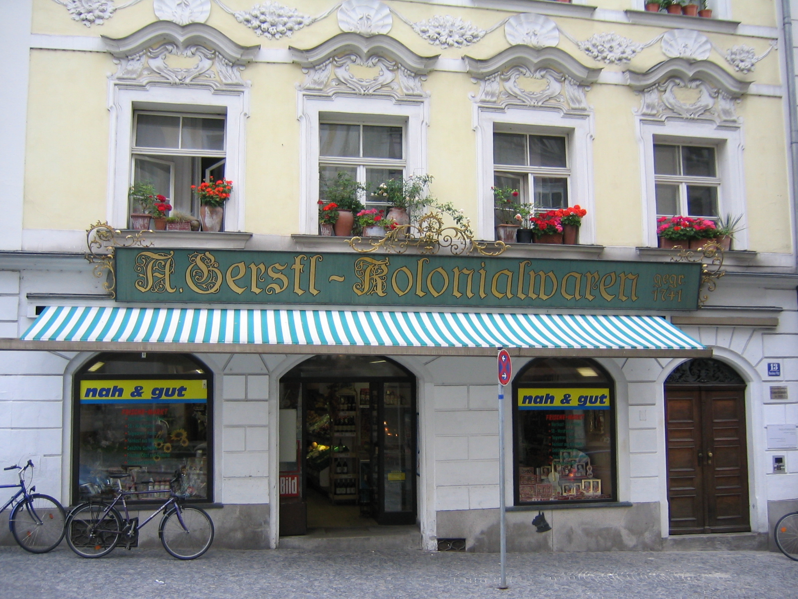 Passau, Residenzplatz